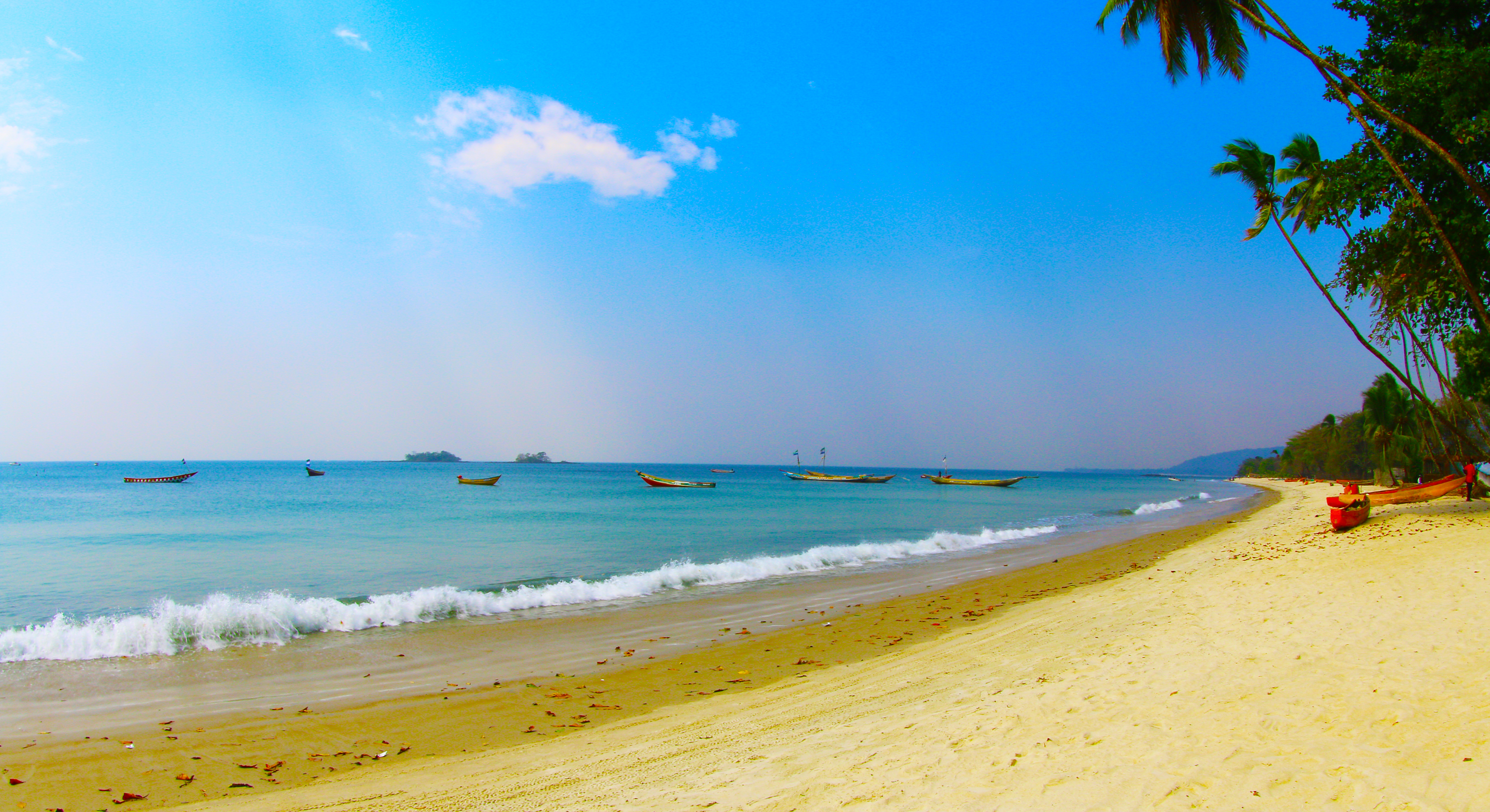 fishing and transportation boats parking opposite to Tokey Beach, one of the most beautiful beaches in Sierra Leone This is an image with the theme "Africa on the Move or Transport" from: Sierra Leone